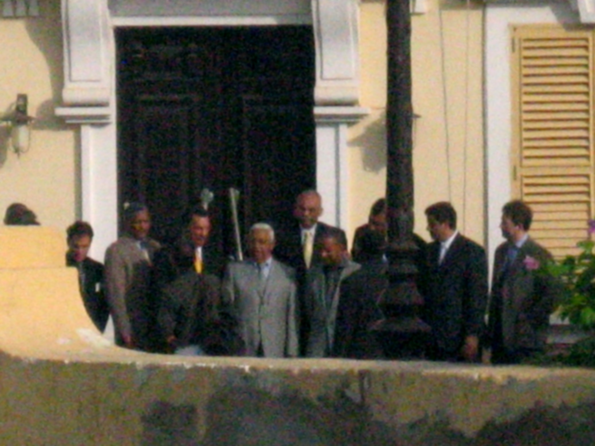 The cape verdian president Pedro Pires (center, grey suit) at a meeting on the occasion of the celebrations of the new school year.